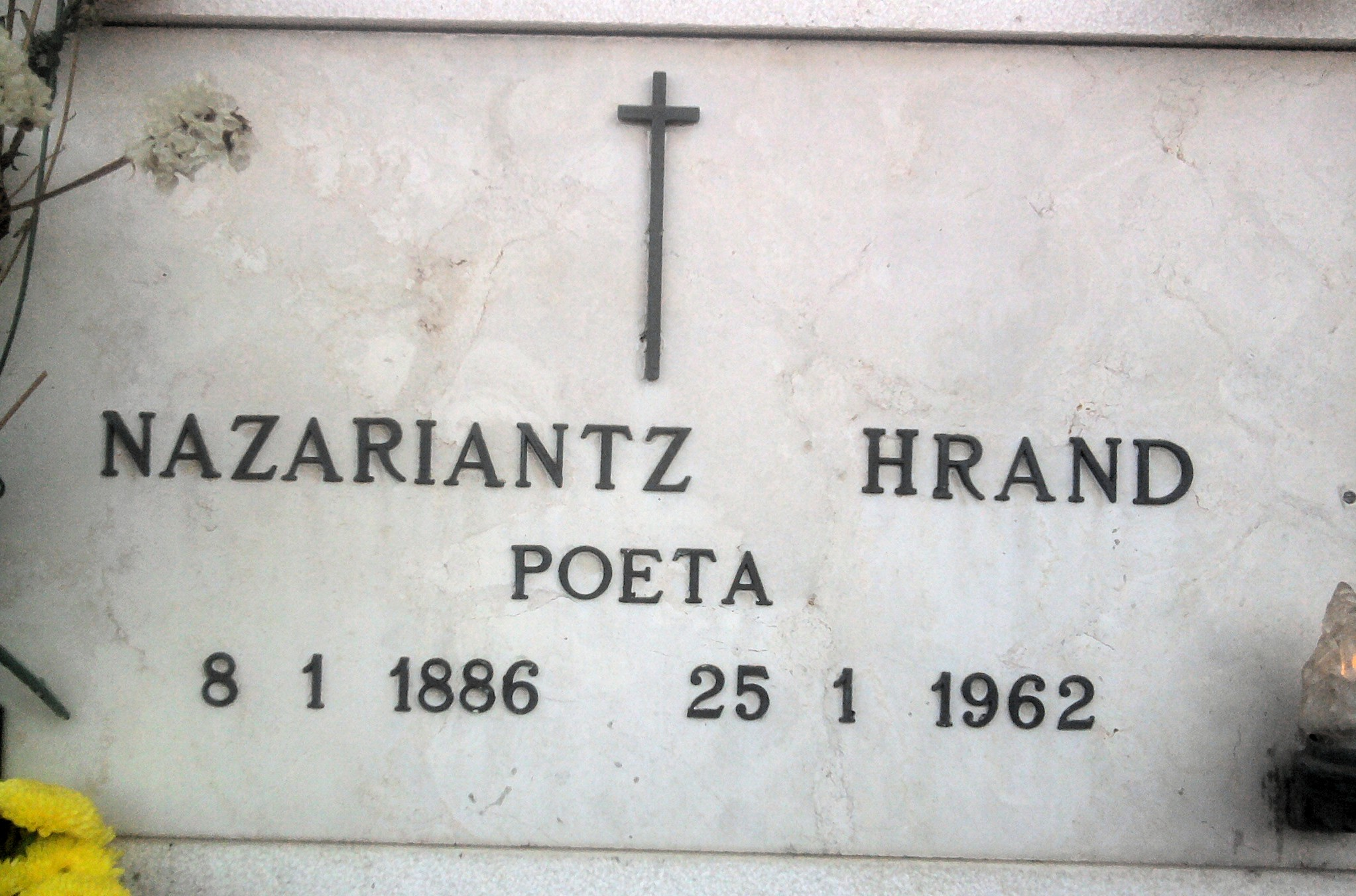 Hrand Nazariantz tomb in Cimitery of Bari (Italy)